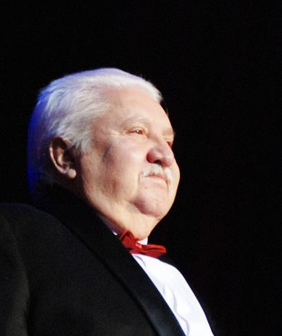 Marián Labuda at the 2011 Bratislavský bál.